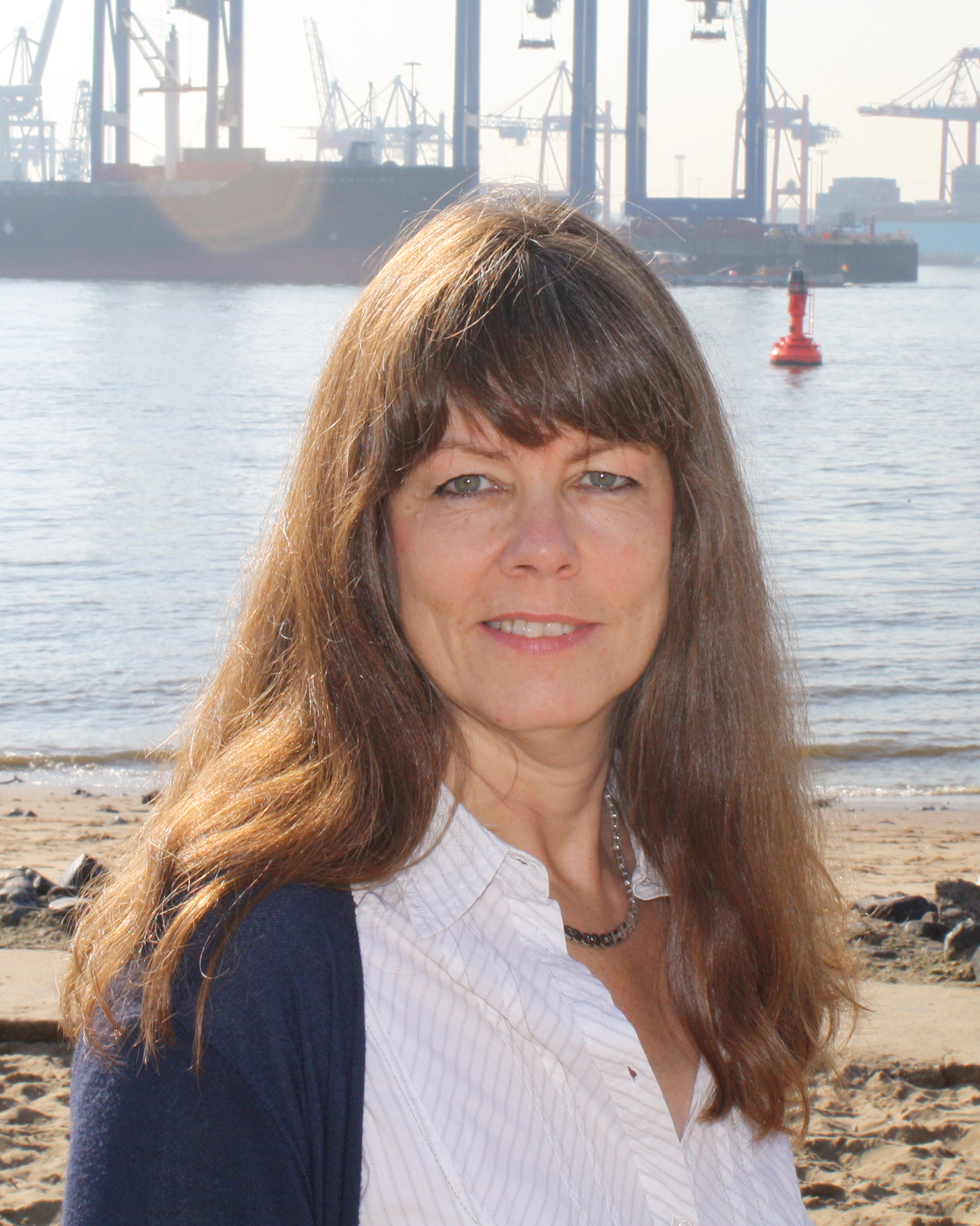 Private portrait of the german author and journalist Sabine Stamer.